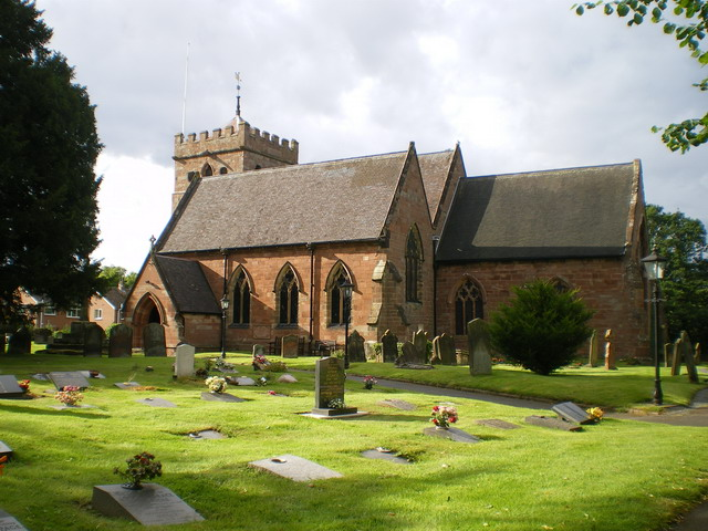 Parish church of St Mary Magdalene, Albrighton, east Shropshire, seen from the south